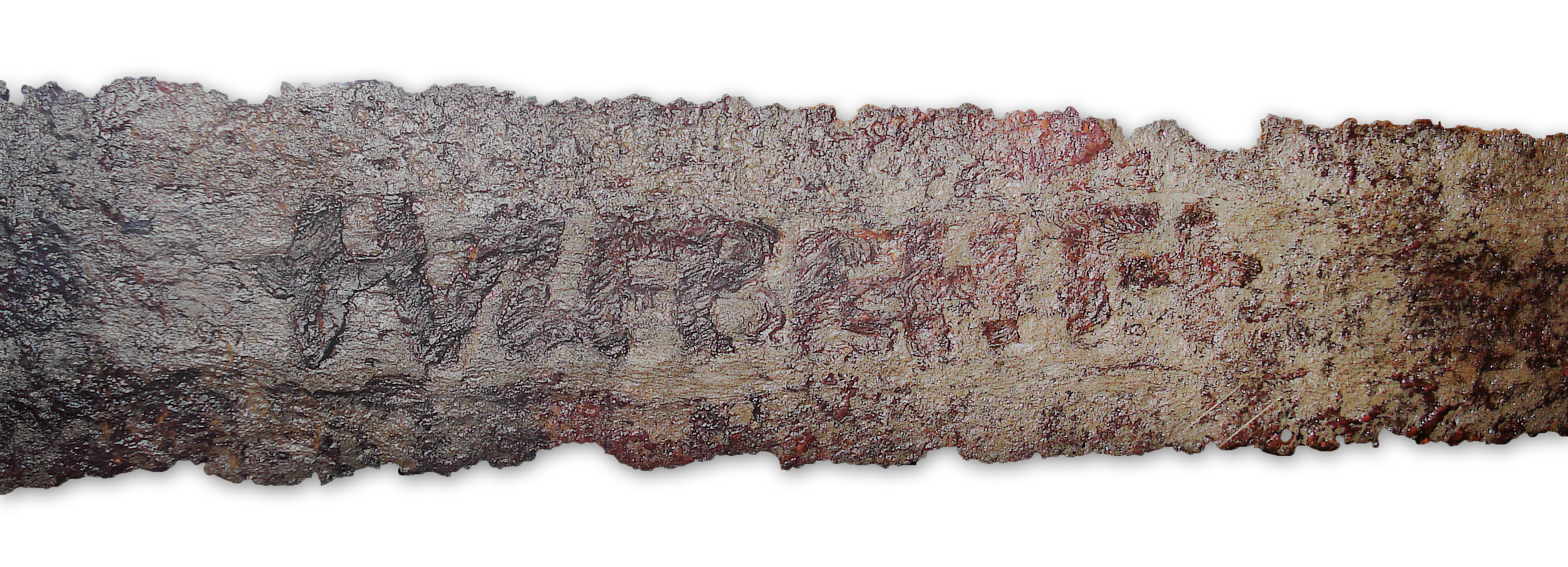 Ulfberht sword from 1st half of the 9th century, displayed at the Germanisches Nationalmuseum, Nuremberg.